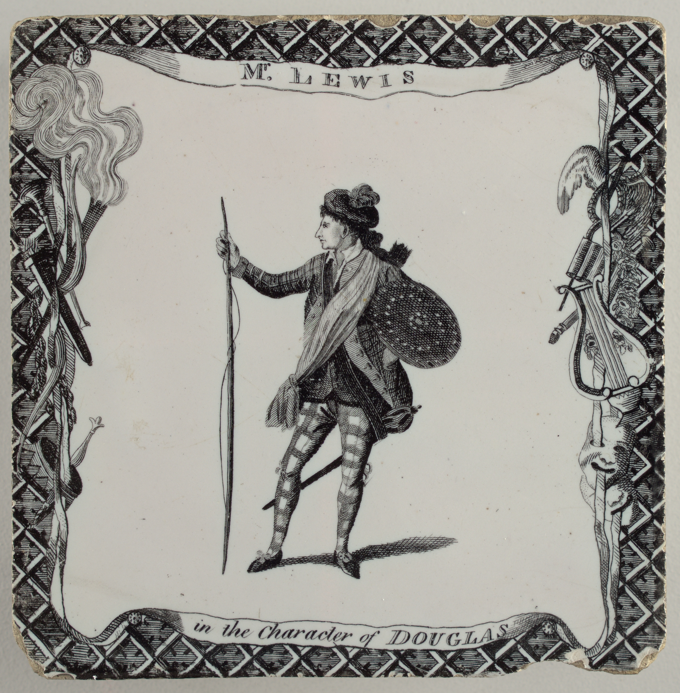 Square tile. "Mr. [William Thomas] Lewis in the Character of Douglas". Standing figure, armed, body facing observer, head to left, one hand resting on bow at left. Latticed border with trophies and a banderole. Design from Bell's British Theatre, 1776-78.